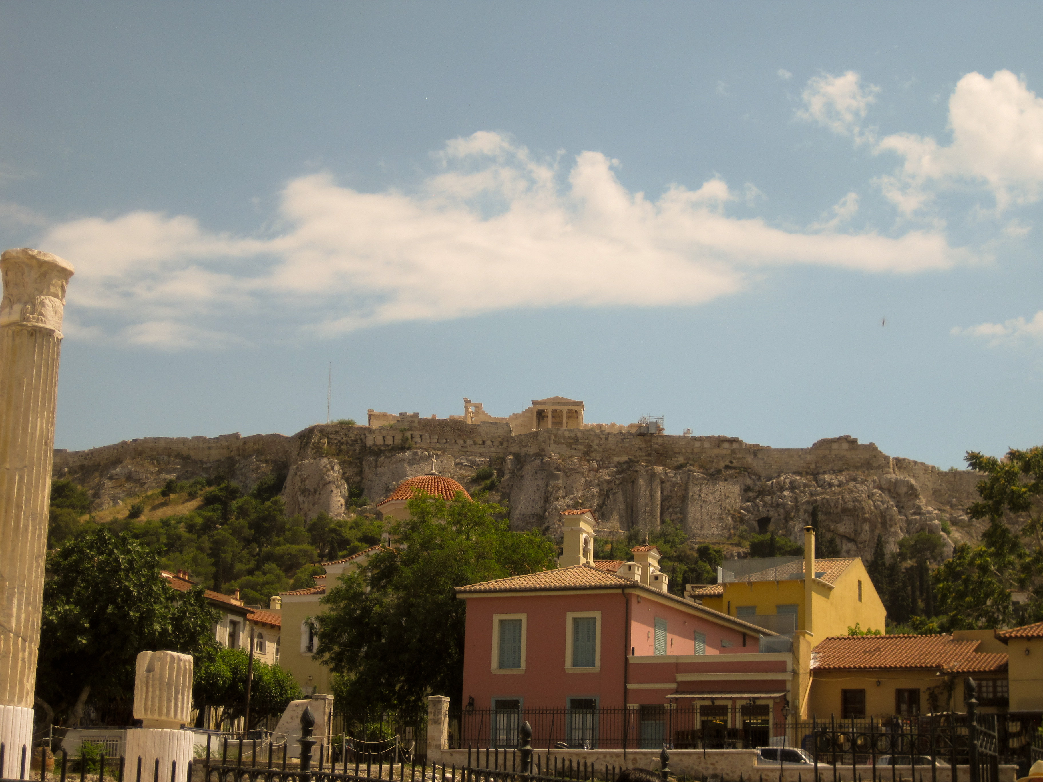 View of Acropolis from Monastiraki.